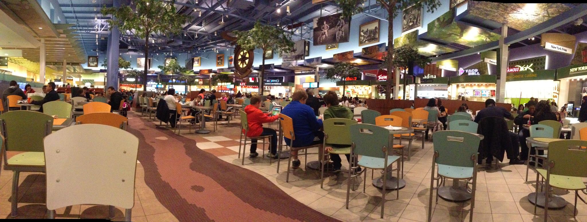 Food court in CrossIron Mills, Calgary, AB